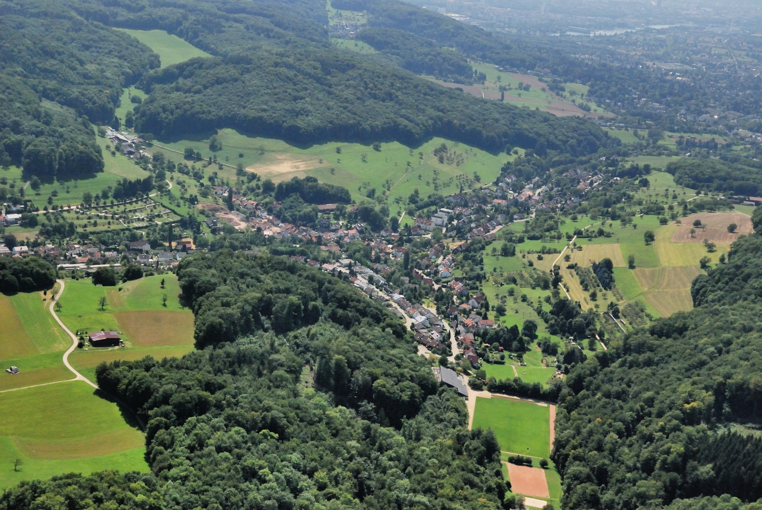 aerial view of Inzlingen